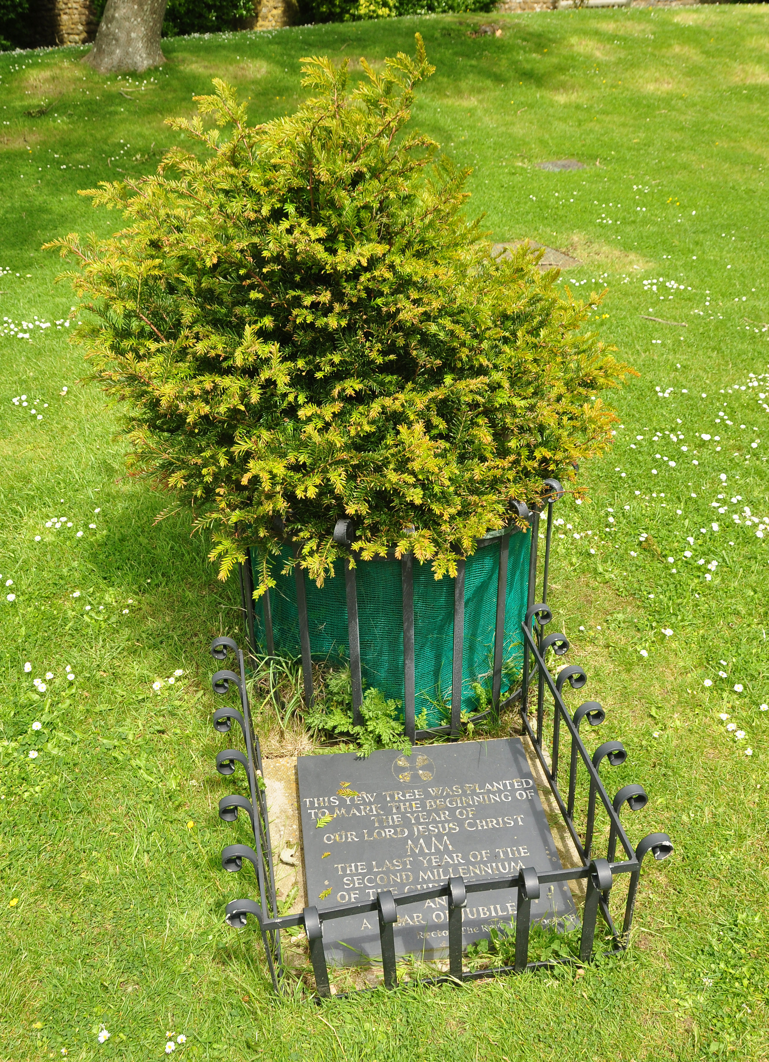 A yew tree planeted to mark the millennium in Dover Castle.